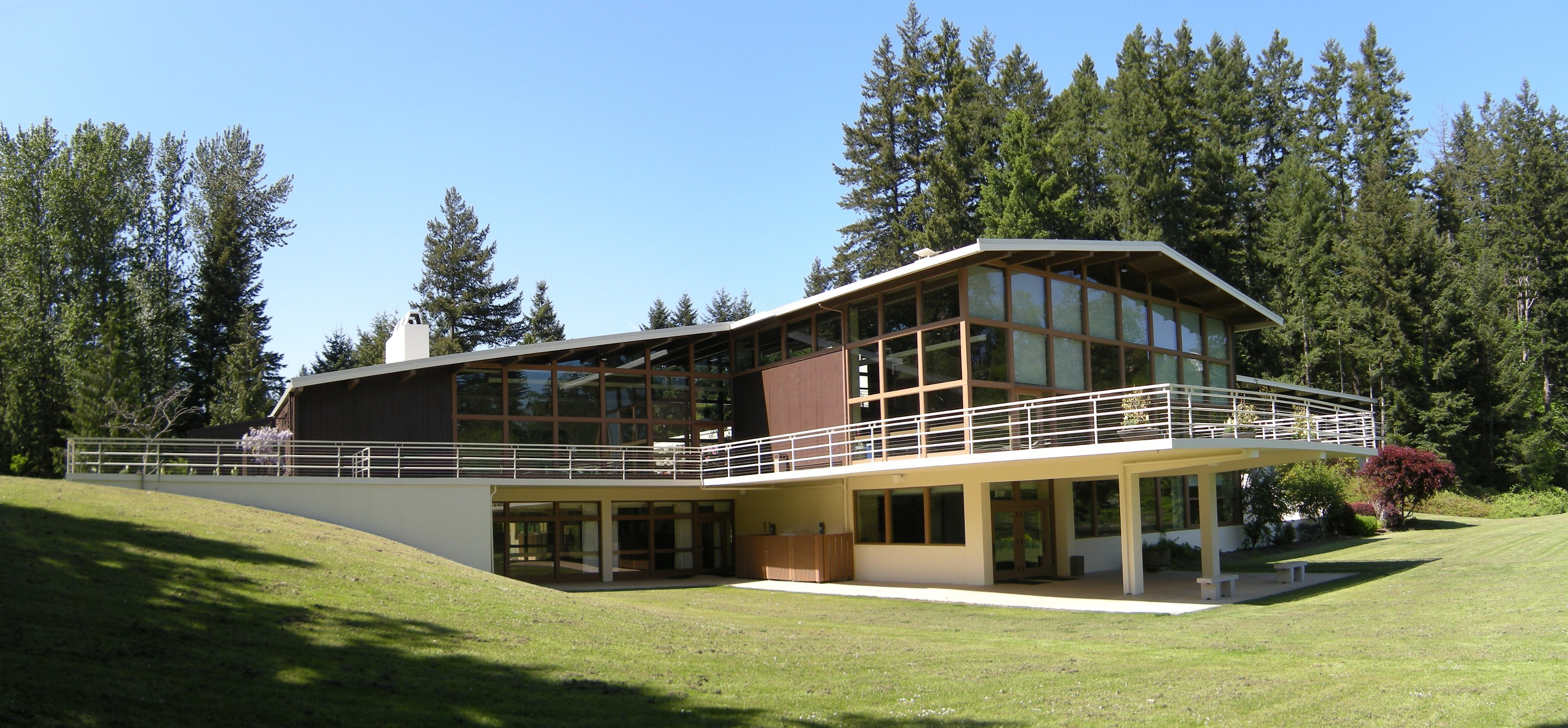 Lake Wilderness Lodge, Maple Valley, Washington, USA. Former resort hotel, now a city recreation facility with its grounds turned into a park. Listed as a King County landmark. This image was created with Hugin This is actually a panorama created from two photos.